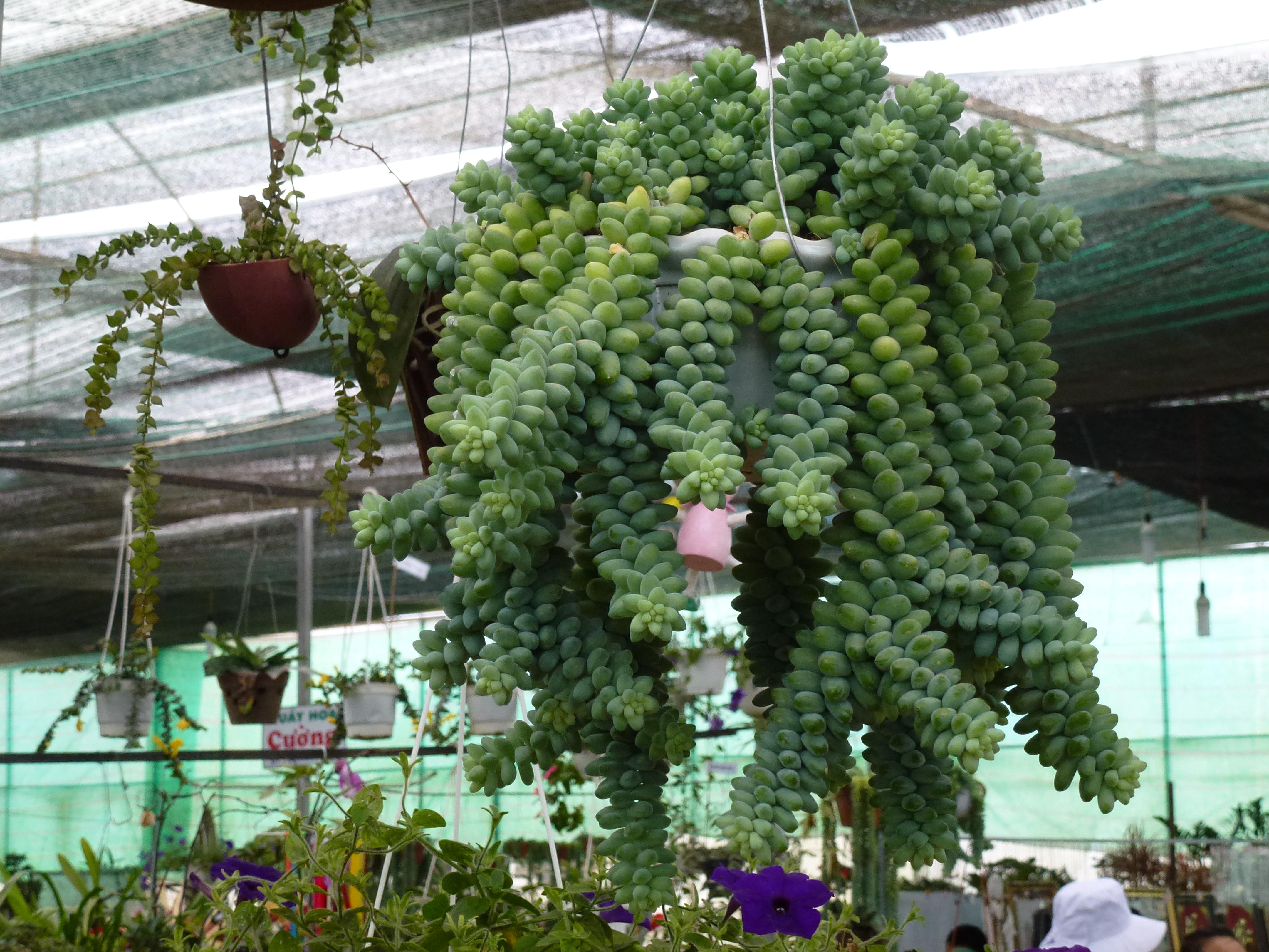 Sedum morganianum in Dalat, Vietnam